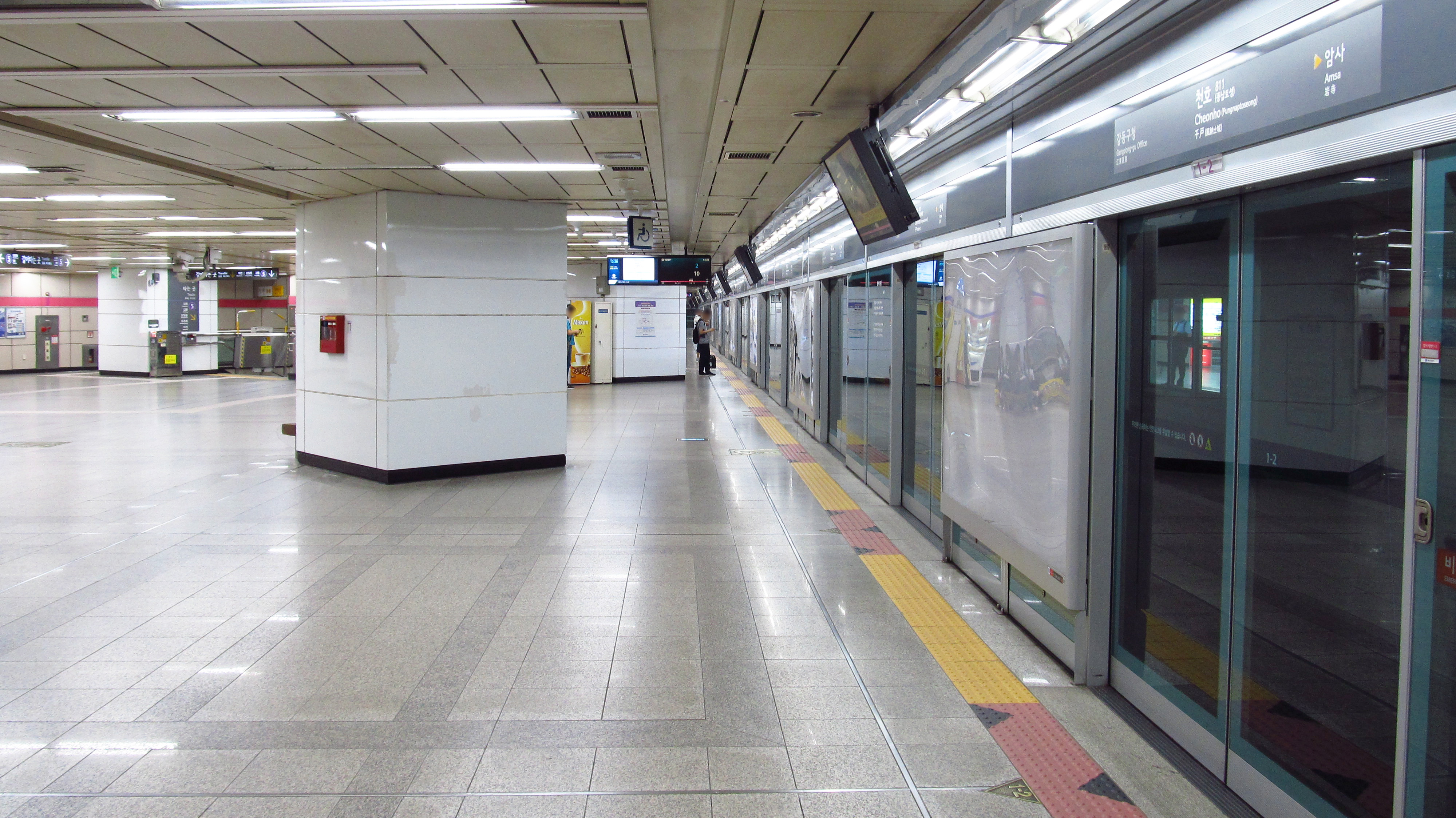 The platform at Cheonho Station on Seoul Subway Line 8 in Gangdong-gu, Seoul, Republic of Korea(South Korea)